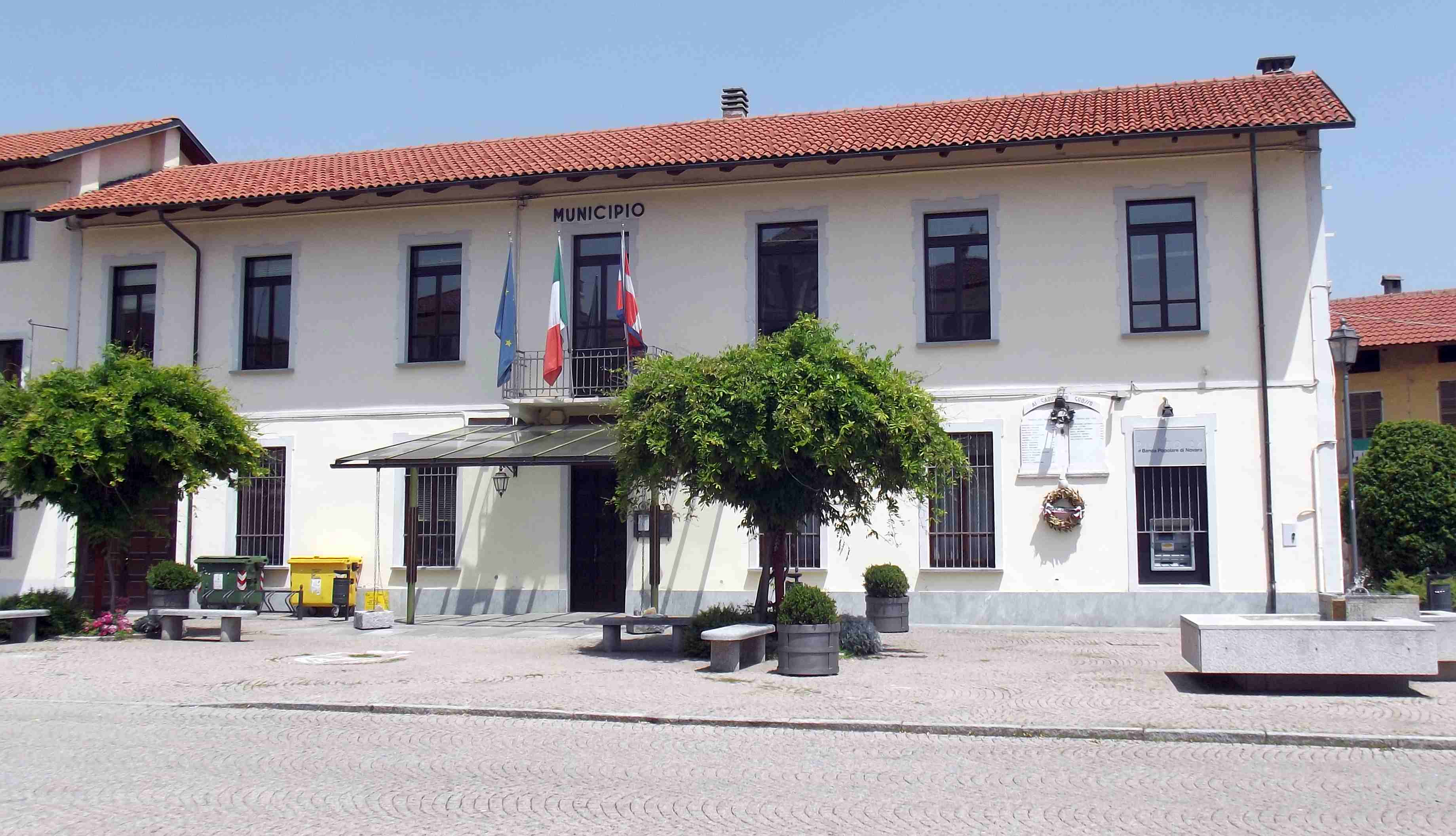 Grosso (TO, Italy): town hall